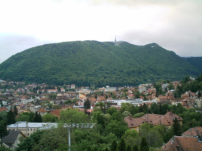 The Tâmpa mountain and a part from Braşov (Kronstadt), Romania